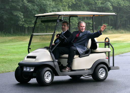 George W. Bush drives Gordon Brown from the landing zone at Camp David on July 29, 2007. President George W. Bush waves to the media as he and Prime Minister Gordon Brown of the United Kingdom depart the landing zone at Camp David following the Prime Minister's arrival Sunday, July 29, 2007, to the presidential retreat in Thurmont, Maryland.